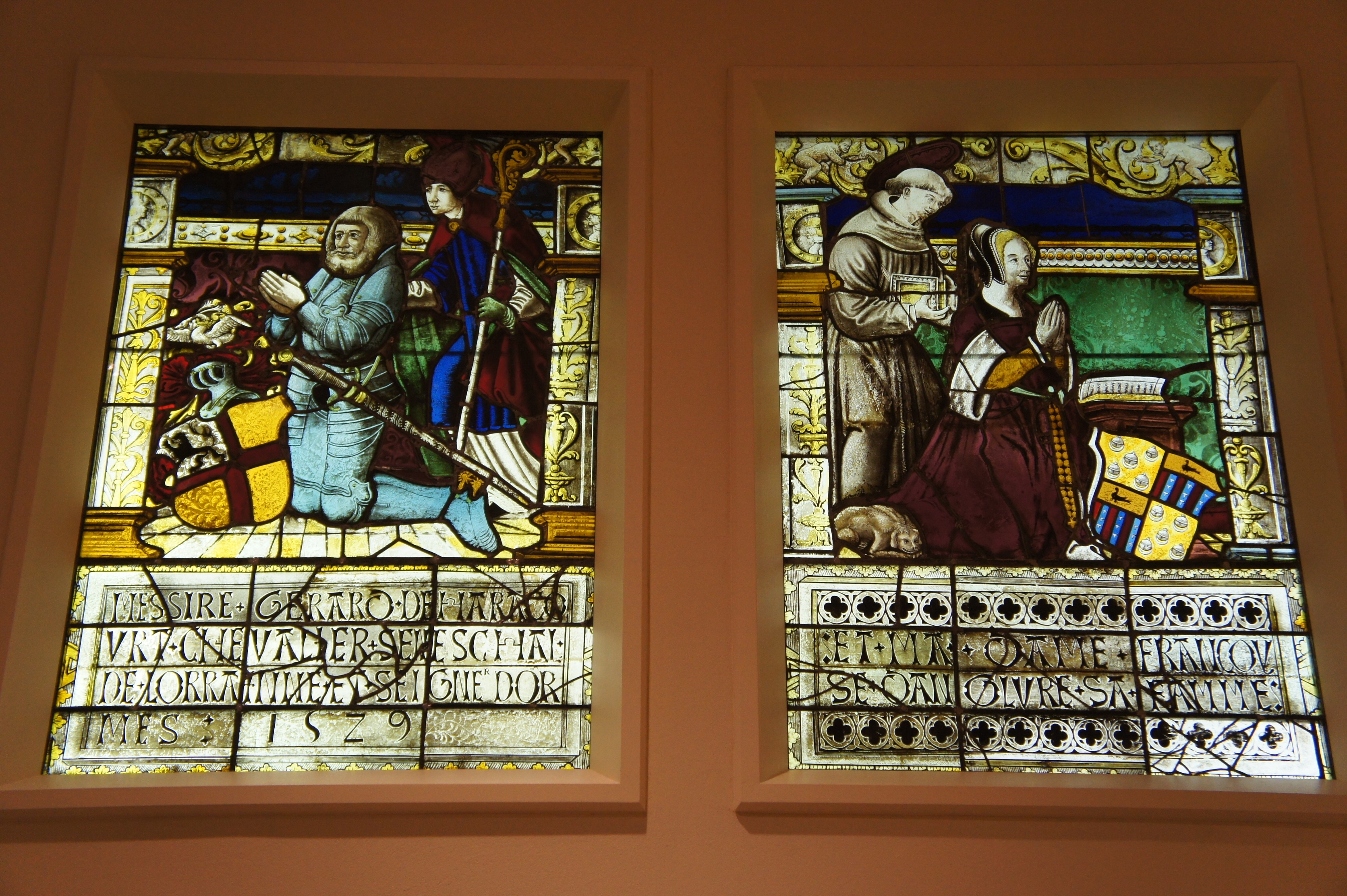 Saint Gérard, bishop of Toul, with Gérard de Haraucourt; Saint Francis with Françoise d'Anglure; Colored, stained, and enameled glass; Lorraine, 1529; the couple's cousin Hesse de Linange commissioned the panels and their counterparts (depicting himself and his wife Madeleine de Grandpré), for the chapel of the church of the Franciscan convent of the Sœurs Grises in Ormes-et-Ville, Lorraine; Bequest of George Blumenthal, 1941; 41.190.447,.448